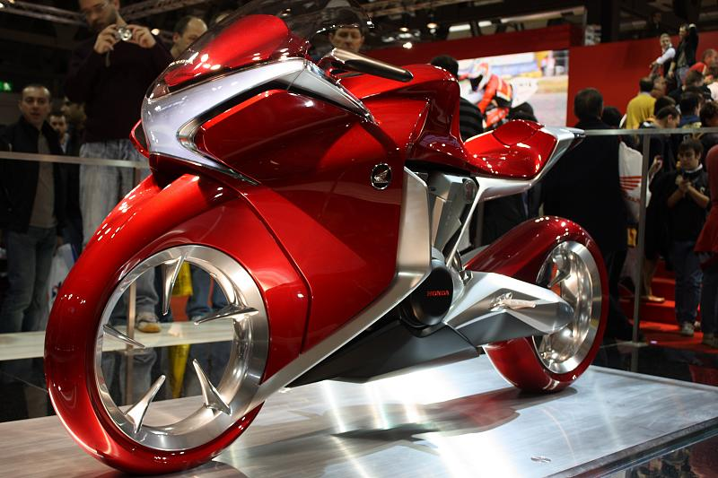 Honda V4 Concept at EICMA 2008, Milan, Italy